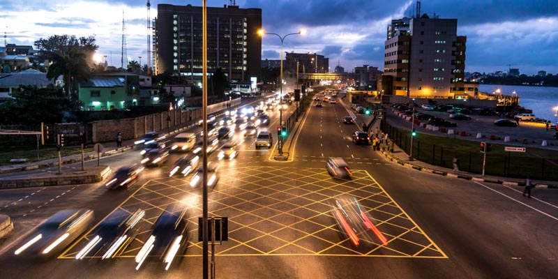 Lekki-Epe Expressway Sandfill Bustop in the evening, image created to depict the beauty of Lagos at night, view from an over head bridge